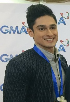 Addy Raj at the Meant to Be production presentation, November 2016